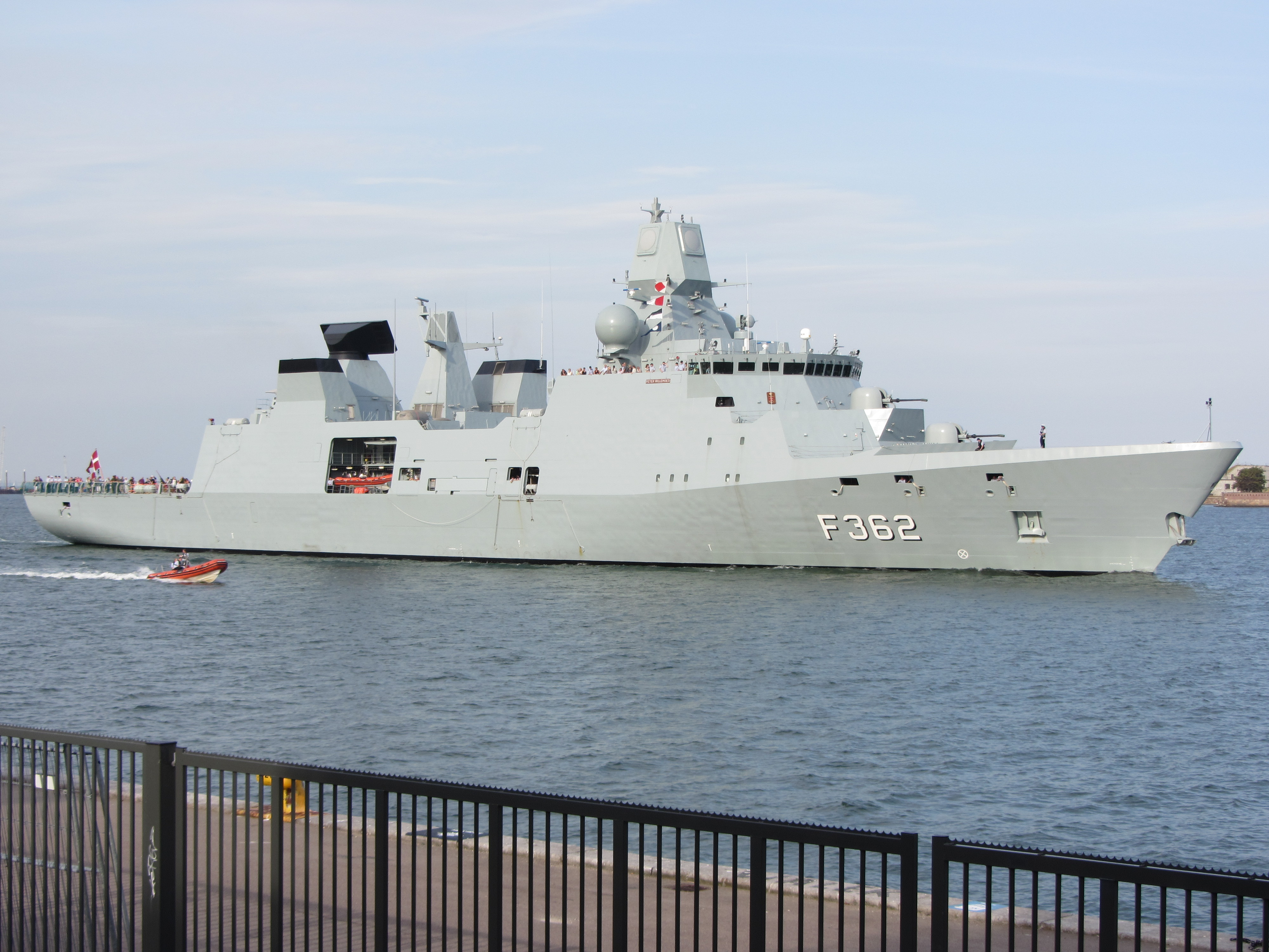 Air defence frigate HDMS Peter Willemoes in Copenhagen